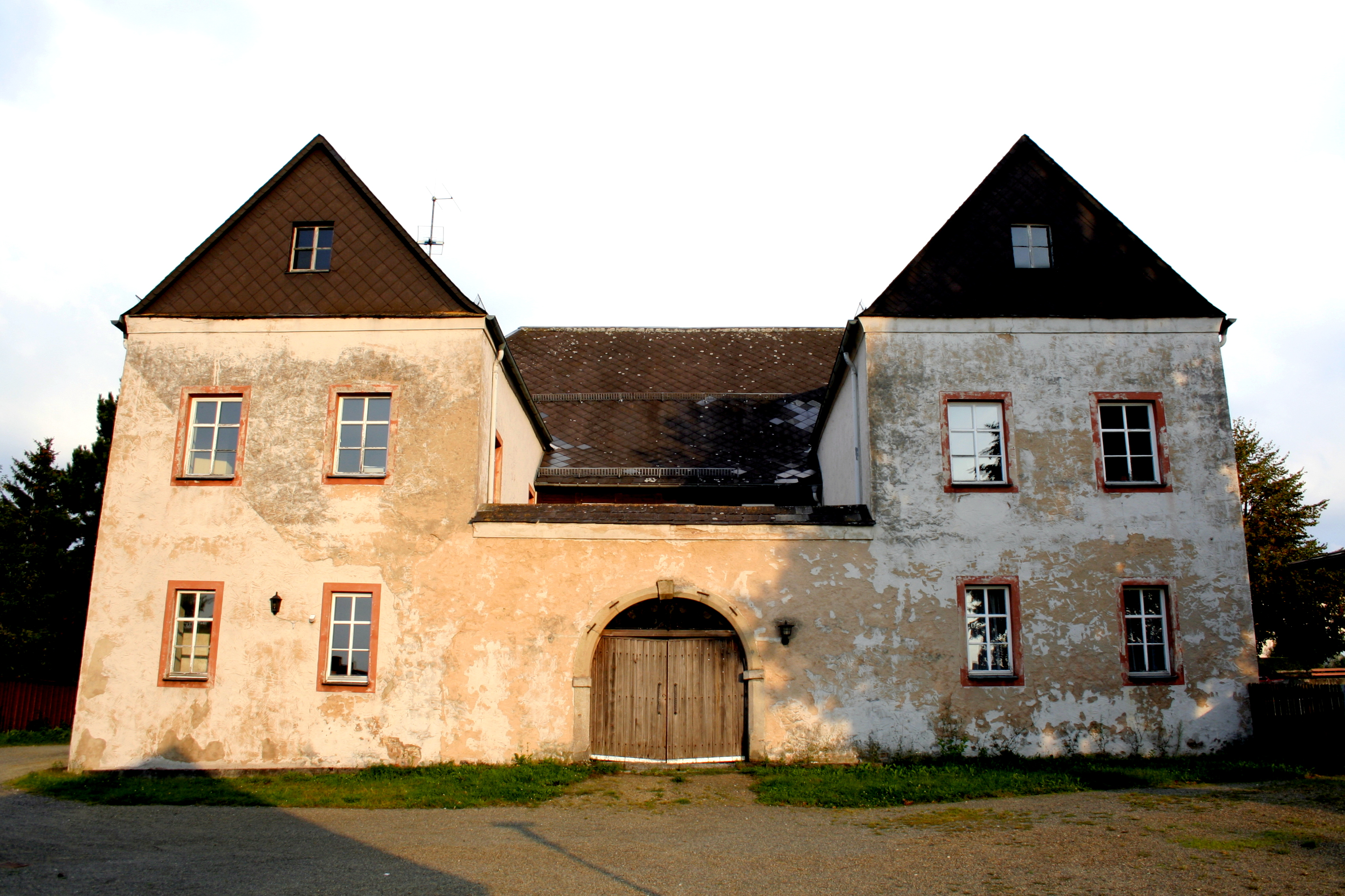 Heritage Building; Germany; Bavaria; Upper Palatinate; administrative district Neustadt. a.d.Waldnaab, Waldthurn New Castle Backside (D-3-74-165-10)This is a photograph of an architectural monument.